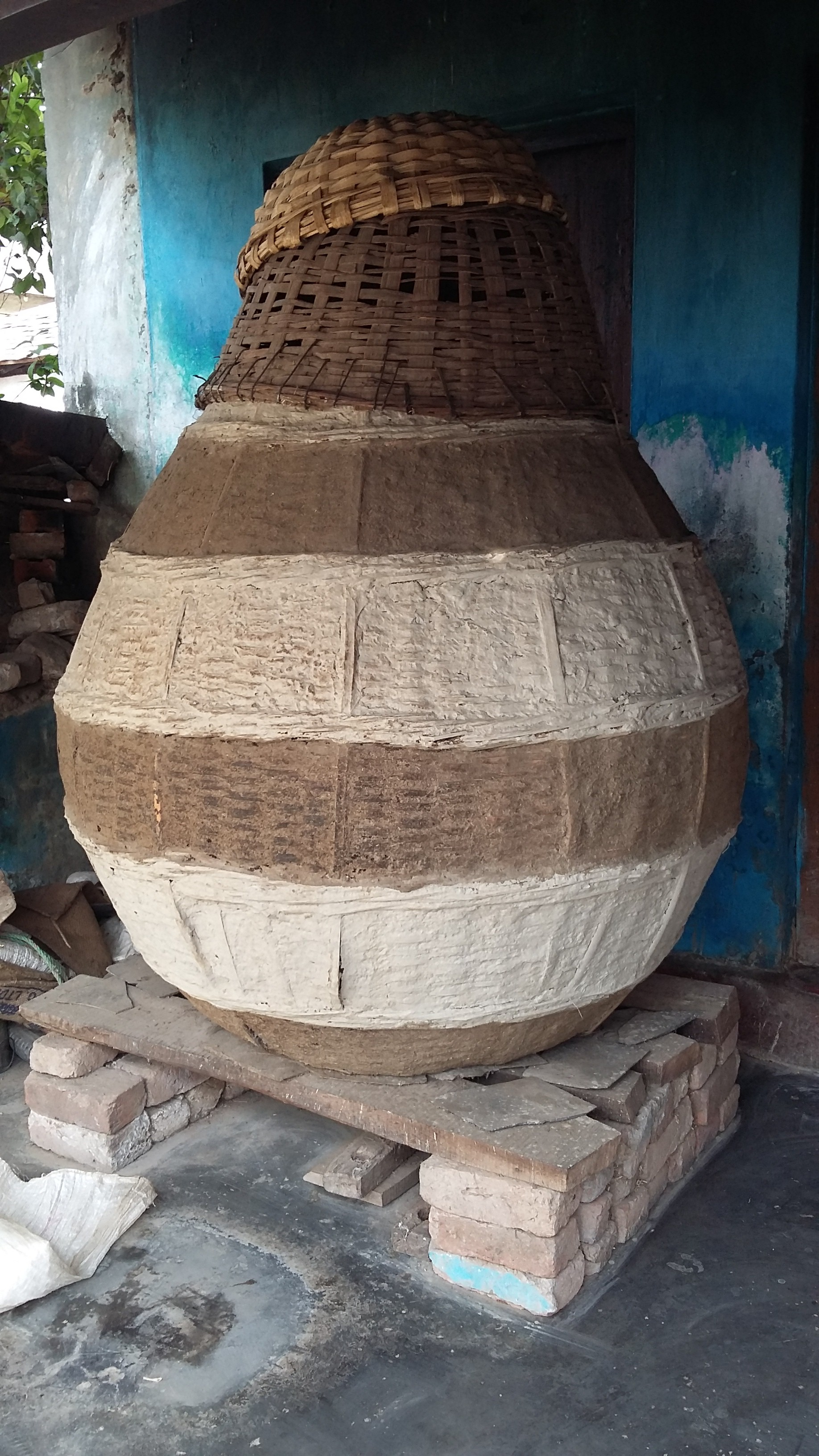 Grain storage container